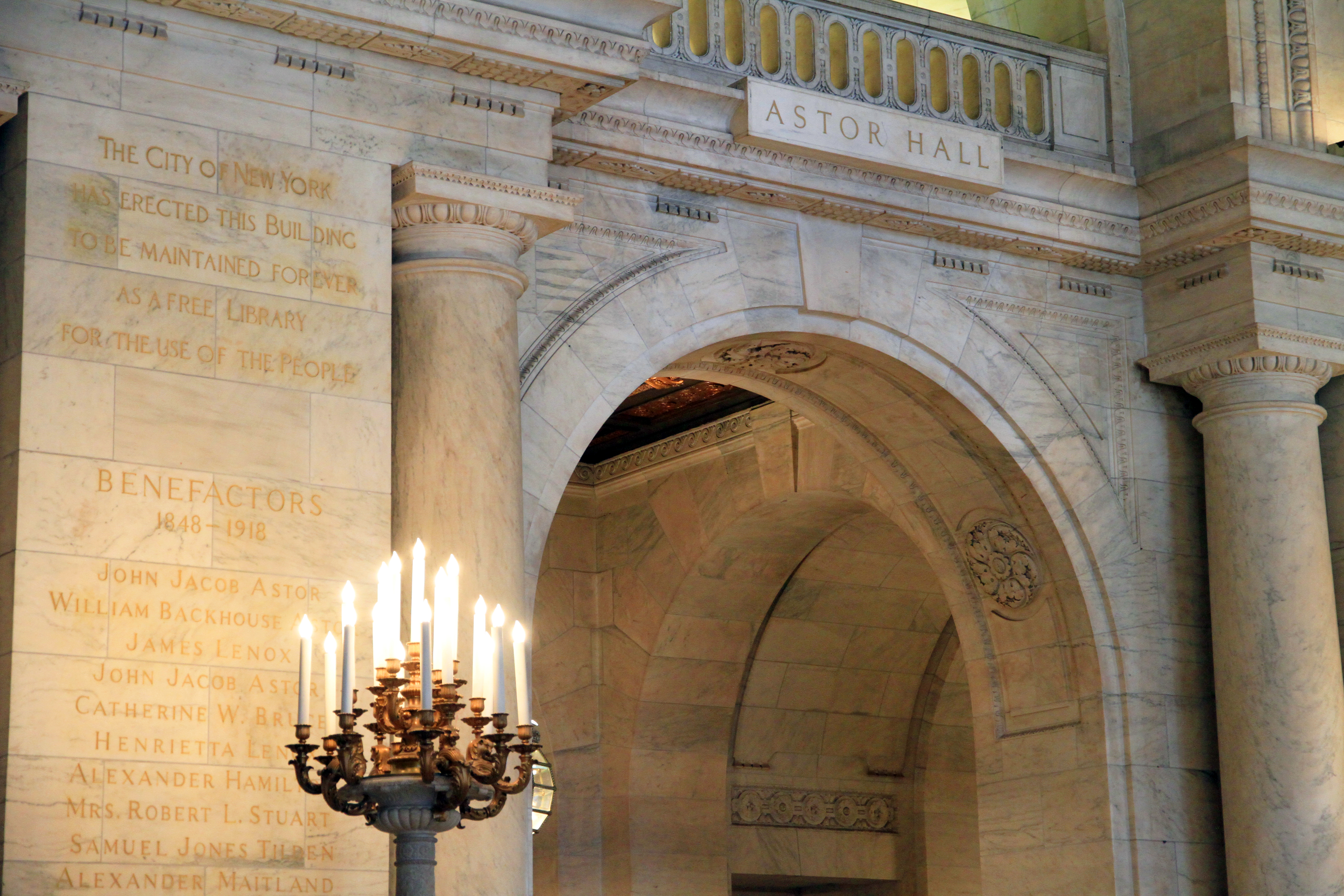 New York Public Library, 2013